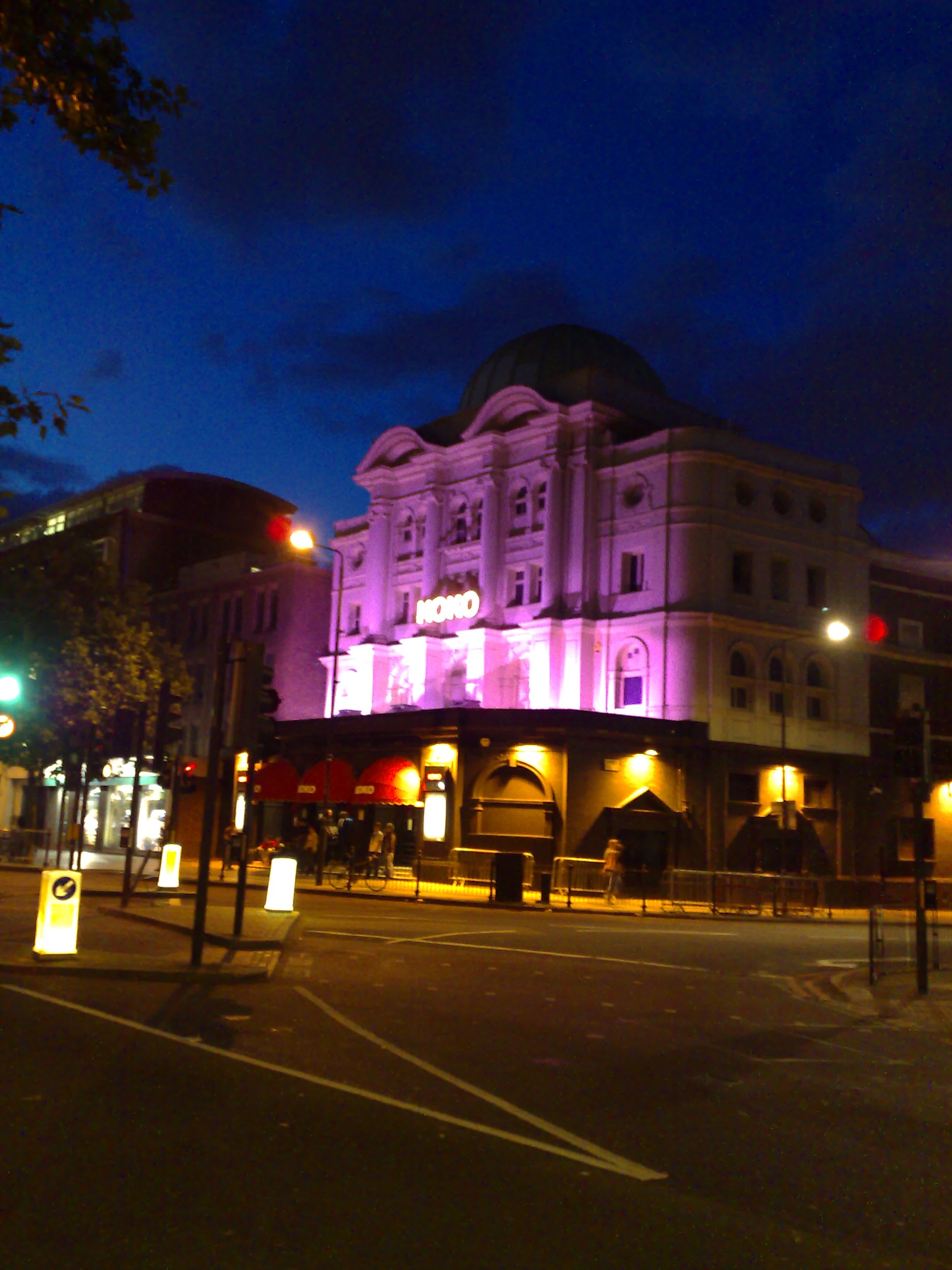 KOKO in Camden, London on July 12 2009 - gig arranged by Jungle Drums magazine. Orquestra Imperial is a Brazilian Big Band formed in 2002 with the objective of recreating the typical Gafieira Samba sound. The group brought together notable names from the new Carioca pop scene such as Rodrigo Amarante (from the group Los Hermanos) Moreno Veloso, Domenico and Kassin (from the +2 project), Nina Becker, Thalma de Freitas, Max Sette and Rubinho Jacobina with experienced musicians like Nelson Jacobina (the composer of the Imperio Serrana) and the samba percussionist and singer Wilson das Neves. Other musicians who have contributed to the Orquestra include Berna Ceppas, Rodrigo Bartolo (who plays with Arnaldo Antunes and Duplexx), Pedro Sa (Caetano Velosos guitarist), Bidu Cordeiro (who accompanied the Paralamas do Sucesso and Reggae B) and DJ Marlboro who has gained the title of official Orquestra Imperial DJ.